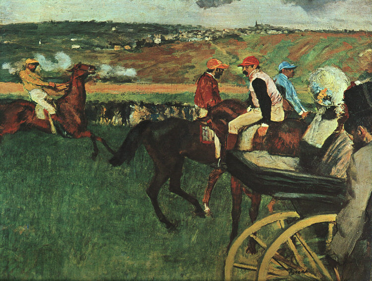 At the Races